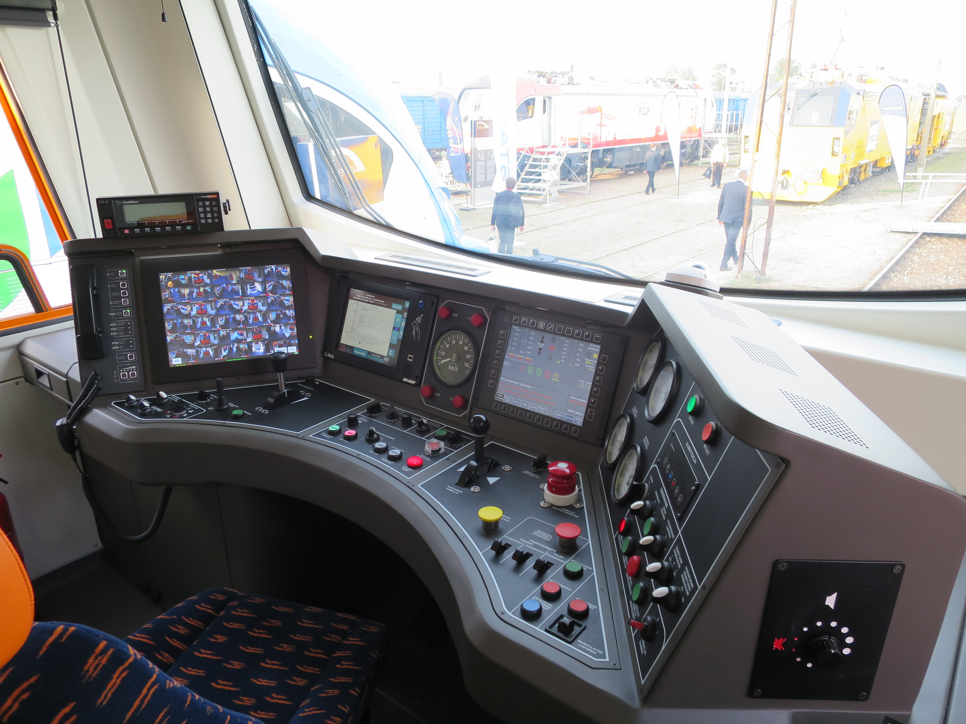 The making of this document was supported by Wikimedia Polska Association, within Wikigrant no. WG 2017-44. EN57FPS